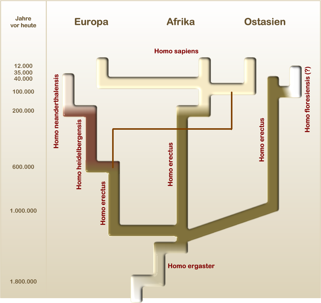 Human evolution - splitter version (the extreme splitter is a seperate file) - german language version